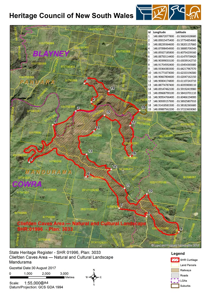 Cliefden Caves: SHR Plan